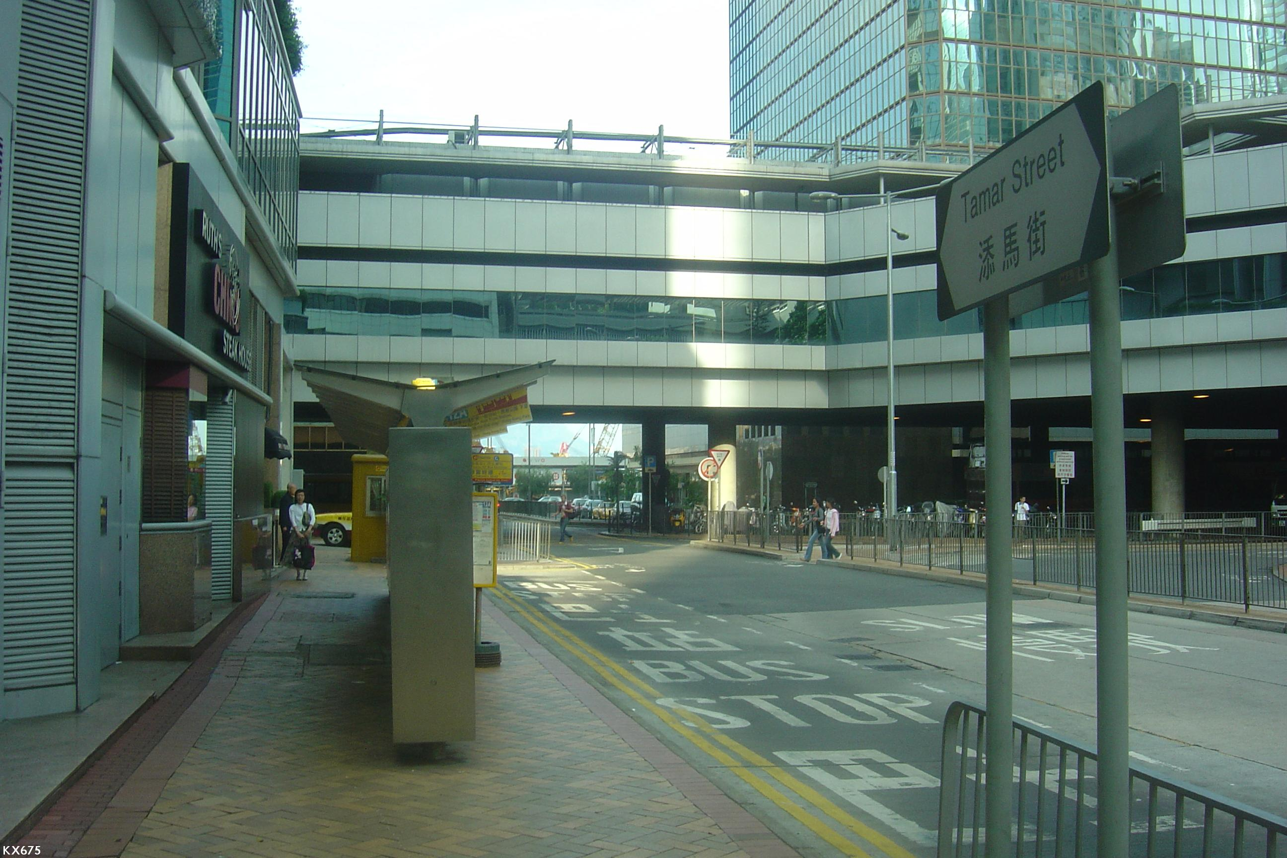 Admiralty (Tamar Street) Bus Terminus, Admiralty, Hong Kong 中文（香港）: 香港金鐘金鐘 (添馬街) 巴士總站。